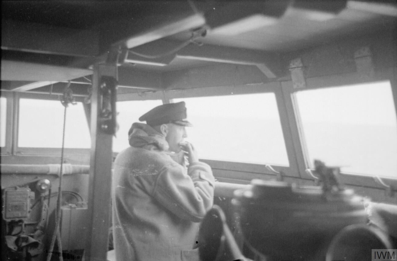 IWM caption : The Captain on the bridge of HMS SUFFOLK while shadowing BISMARCK. The Captain does not leave the bridge on these occasions; here he is seen having a sandwich for his lunch.